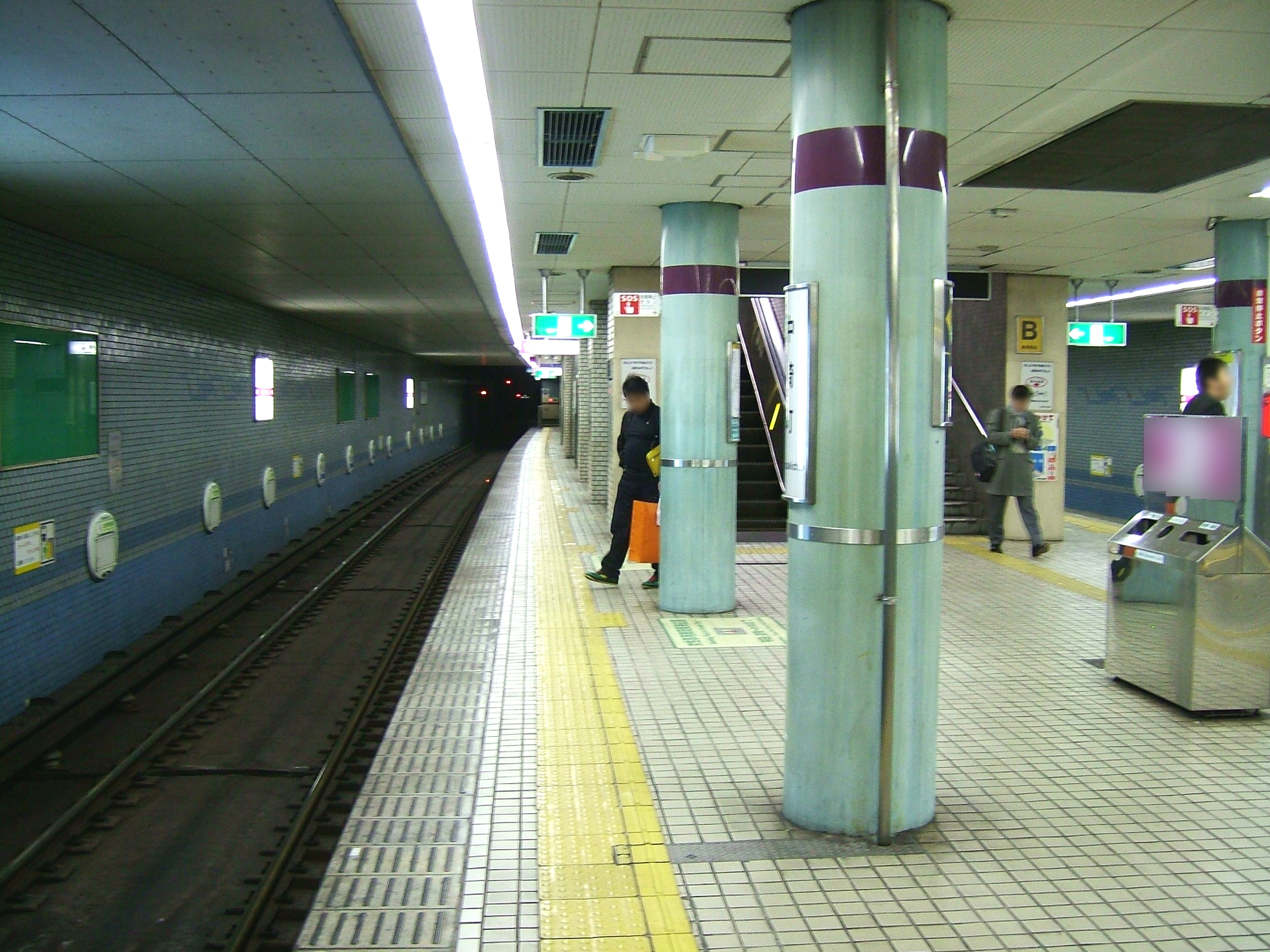 The platform at Nakazakichō Station on the Tanimachi Line